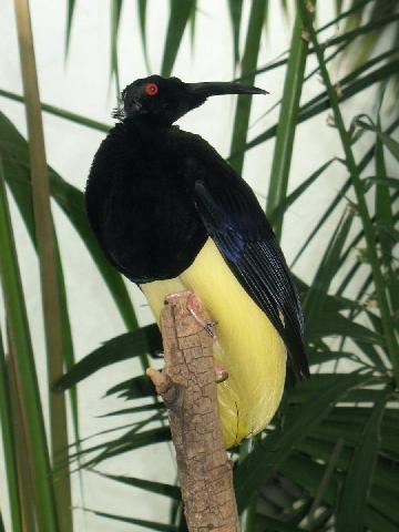 Description: Twelve-wired Bird of Paradise (Seleucidis melanoleuca) - Source: own work - Location: Bronx Zoo, New York - Author: self, User:Stavenn